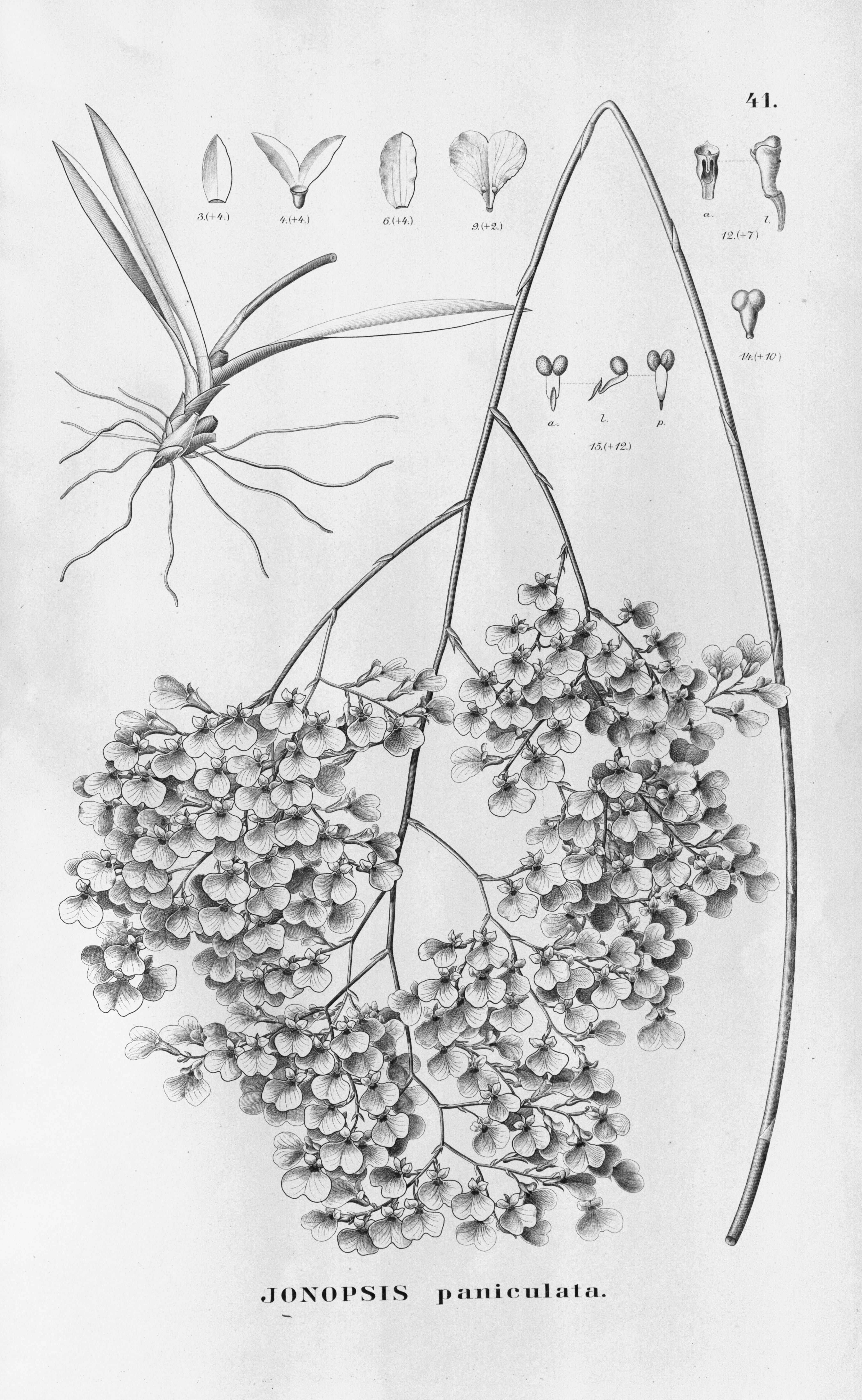 Illustration of Ionopsis utricularioides (as syn. Ionopsis paniculata)